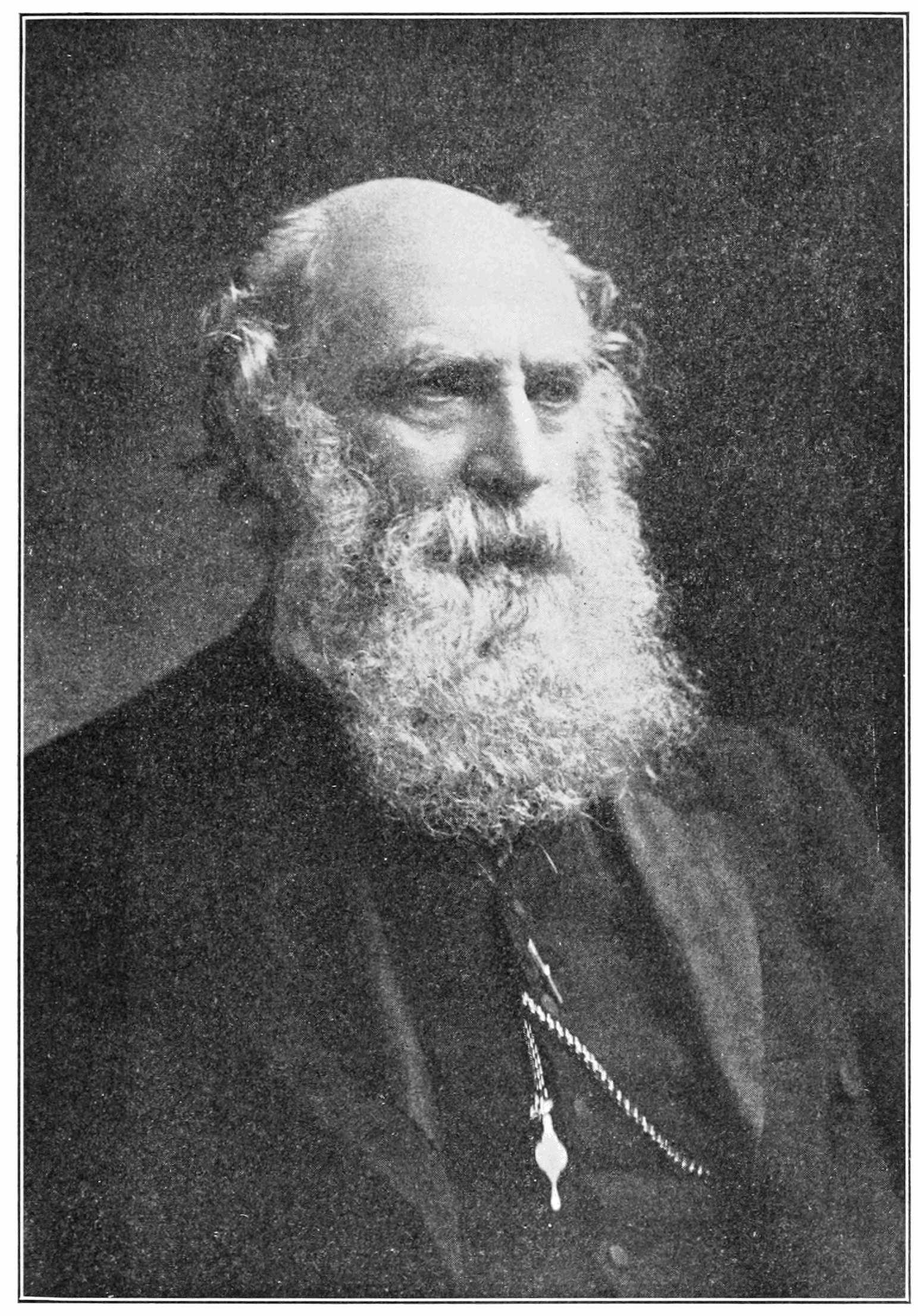 George Johnston Stoney